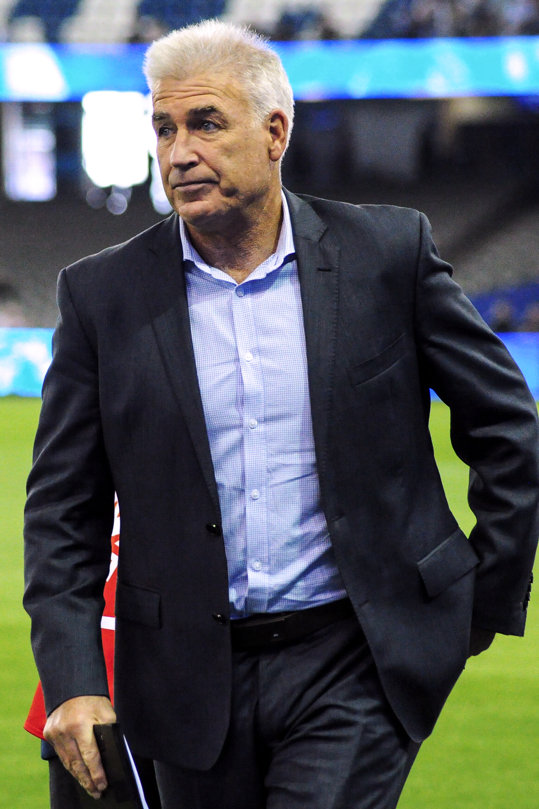 Gerard Healy during the AFL round six match between North Melbourne and Port Adelaide on Saturday, 28 April 2018 at Etihad Stadium in Melbourne, Victoria.